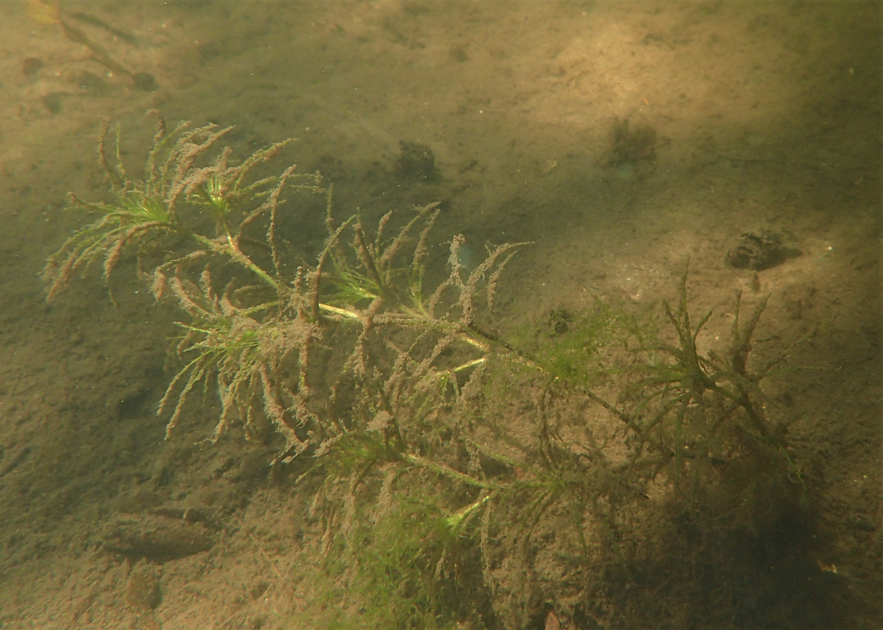 Najas minor in Parnica at Ostrów Mieleński in Szczecin (Odra valley), NW Poland